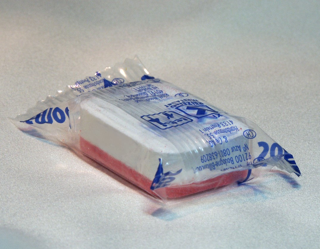 Washing powder tab for dish washer